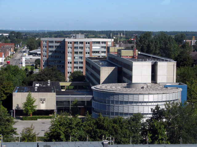 Authority of german district Nordfriesland in the city of Husum